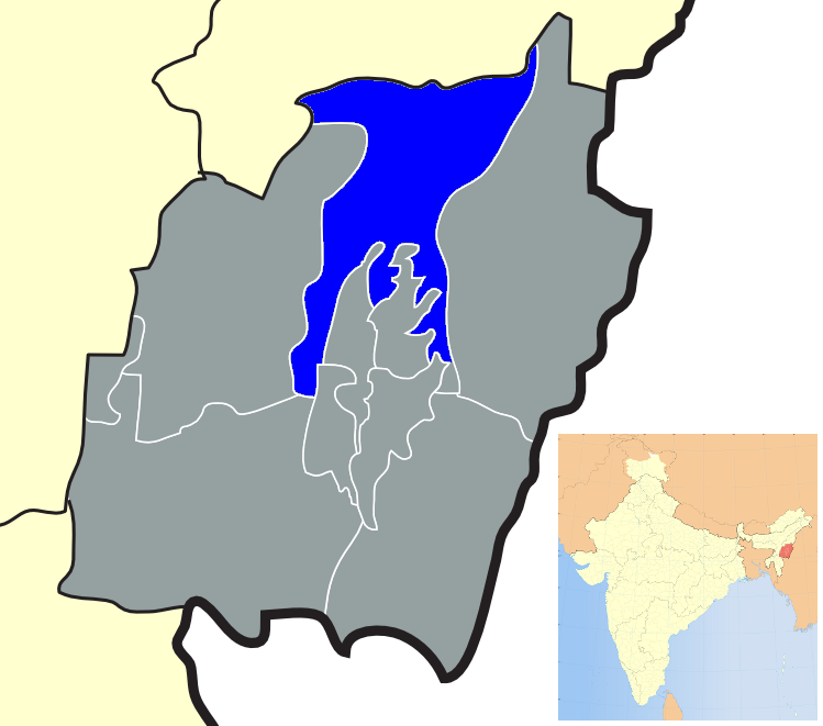 This is a retouched picture, which means that it has been digitally altered from its original version. The original can be viewed here: India Manipur locator map.svg.